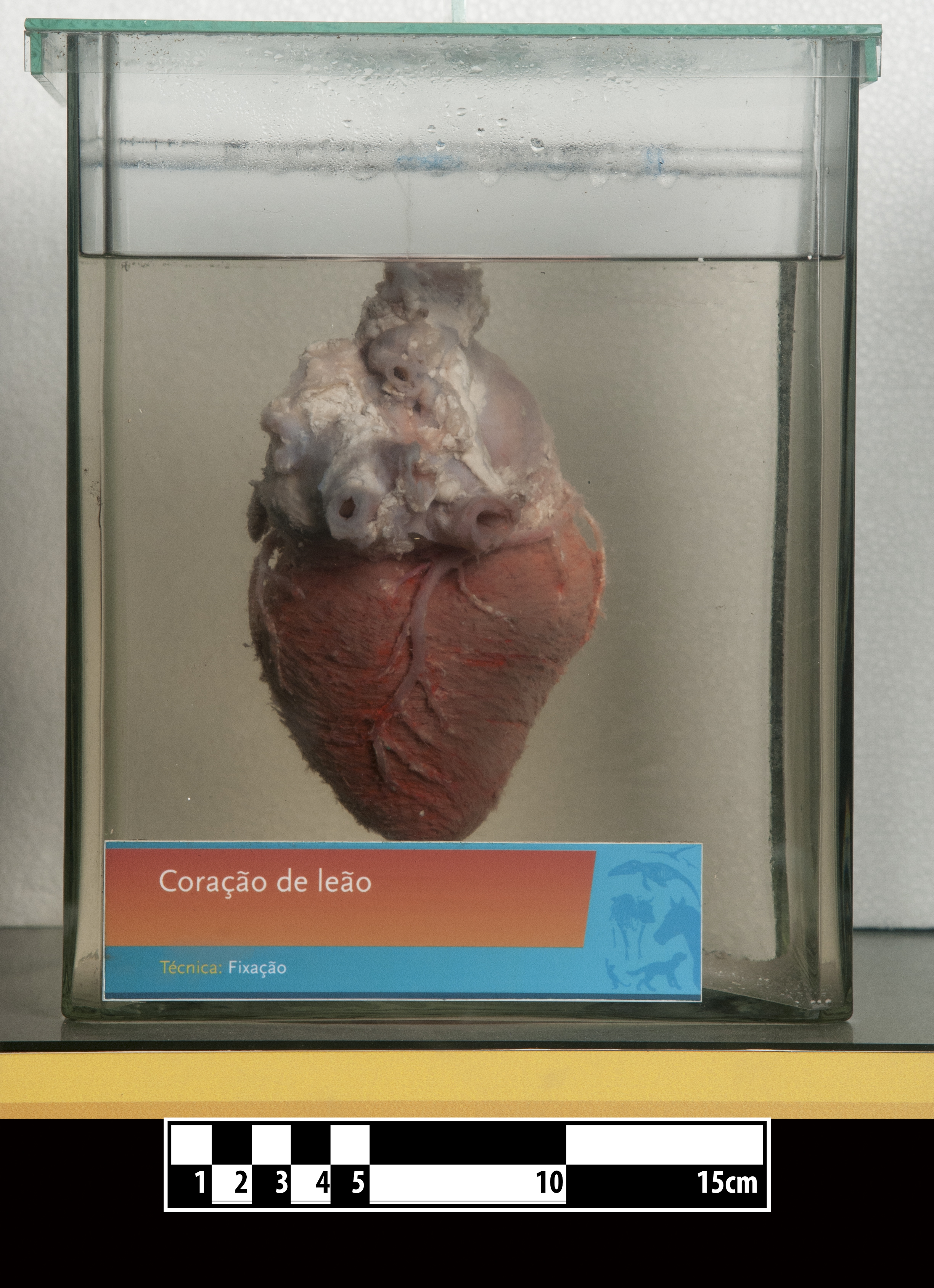 Lion heart. Panthera Leo Technique of formalin fixation on display at the Museum of Veterinary Anatomy, FMVZ USP. This file was published as the result of a partnership between the Museum of Veterinary Anatomy FMVZ USP, the RIDC NeuroMat and the Wikimedia Community User Group Brasil. This GLAM project is reported. Photography: Museum of Veterinary Anatomy FMVZ USP. Author: Wagner Souza e Silva.